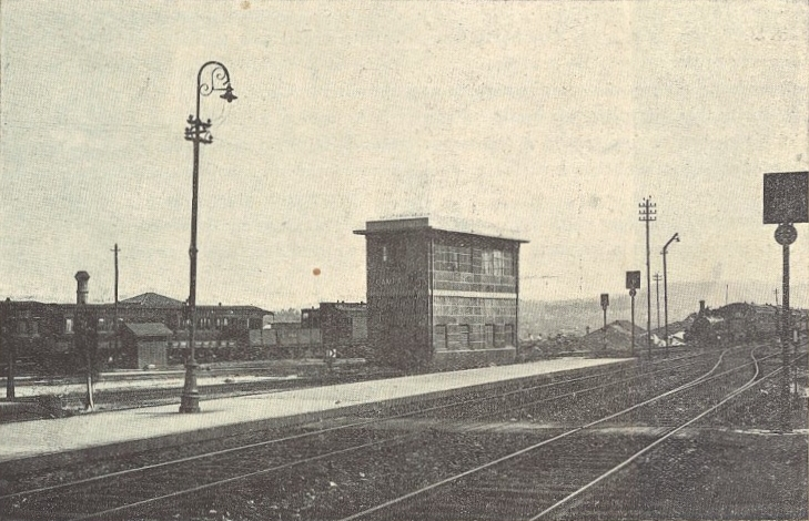 Signal box at Porto - Campanhã Railway Station, in Portugal. This photograph was published on the Gazeta dos Caminhos de Ferro magazine No. 1130, of 16th January 1935, and scanned by the Hemeroteca Municipal de Lisboa.